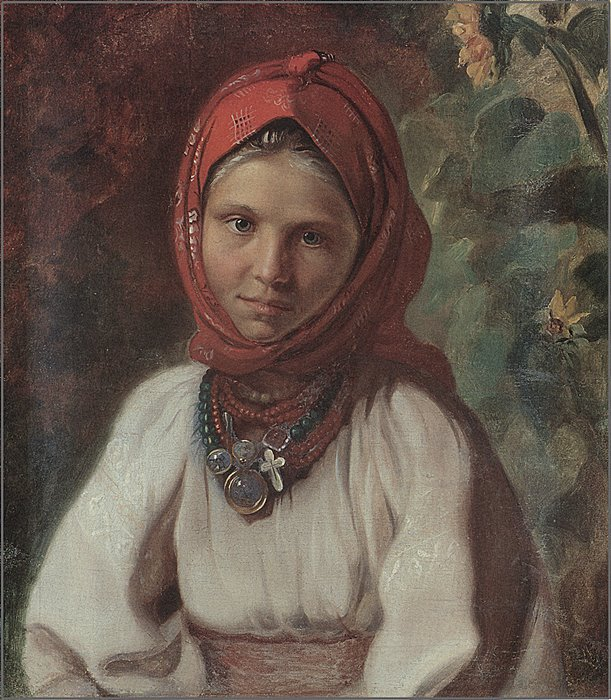 Ukrainian girl in red kerchief